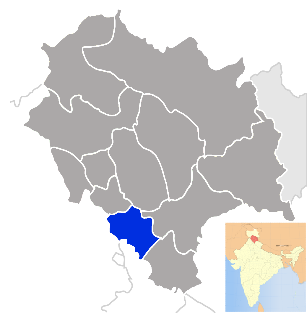 Solan district of Himachal Pradesh